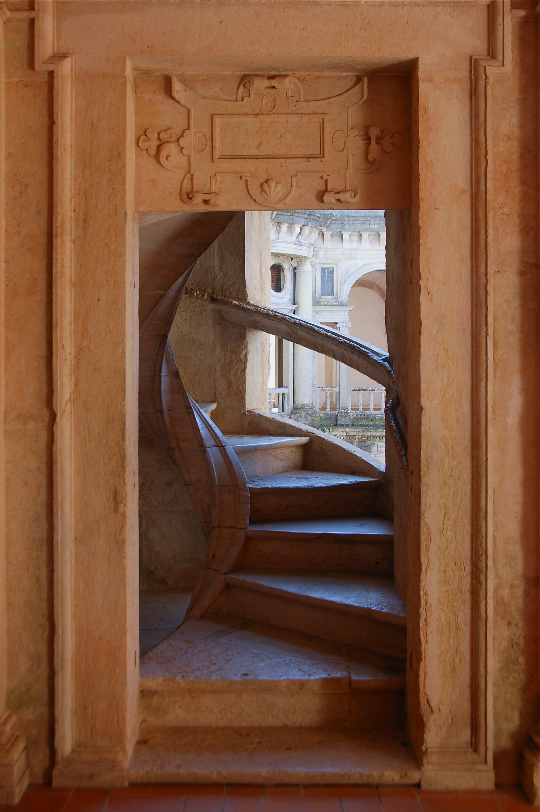 Convent of Christ, Tomar, Portugal. Cloister of Jonh III.